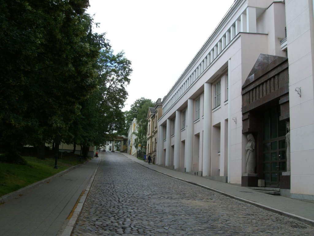 Lossi street, Tartu; University of Tartu, Faculty of Philosophy (Lossi 3) on right.